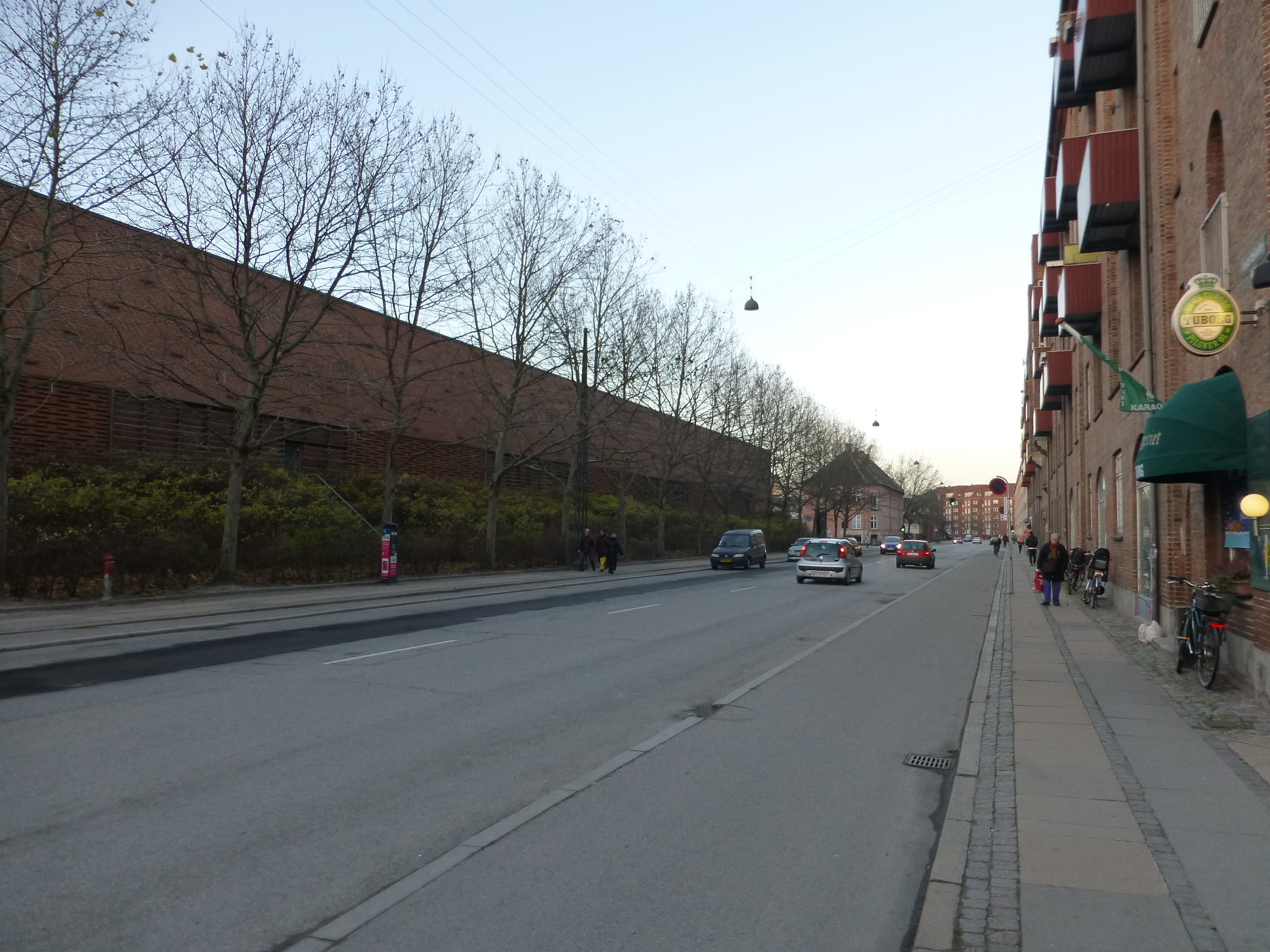 The street Vesterfælledvej in Vesterbro in Copenhagen.